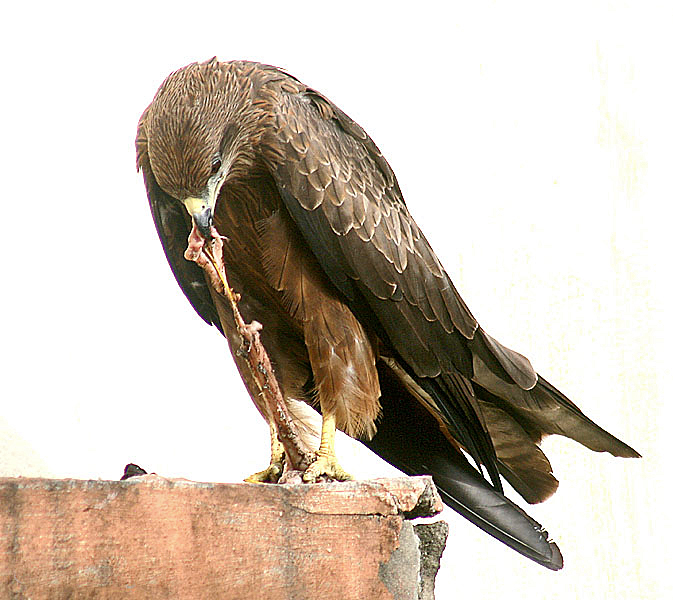 Black Kite Milvus migrans in Kolkata, West Bengal, India.